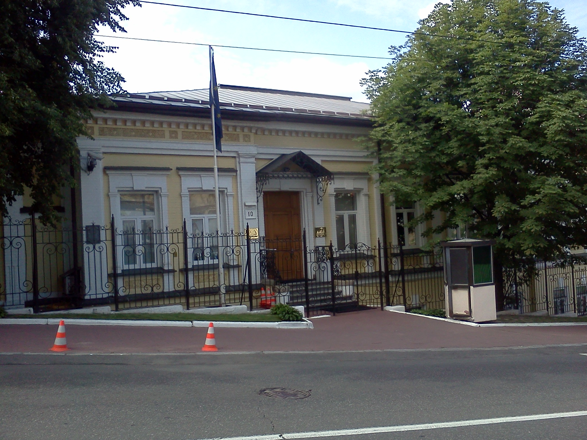 Embassy of EU in Kiev, Ukraine from 1993 to 2013.